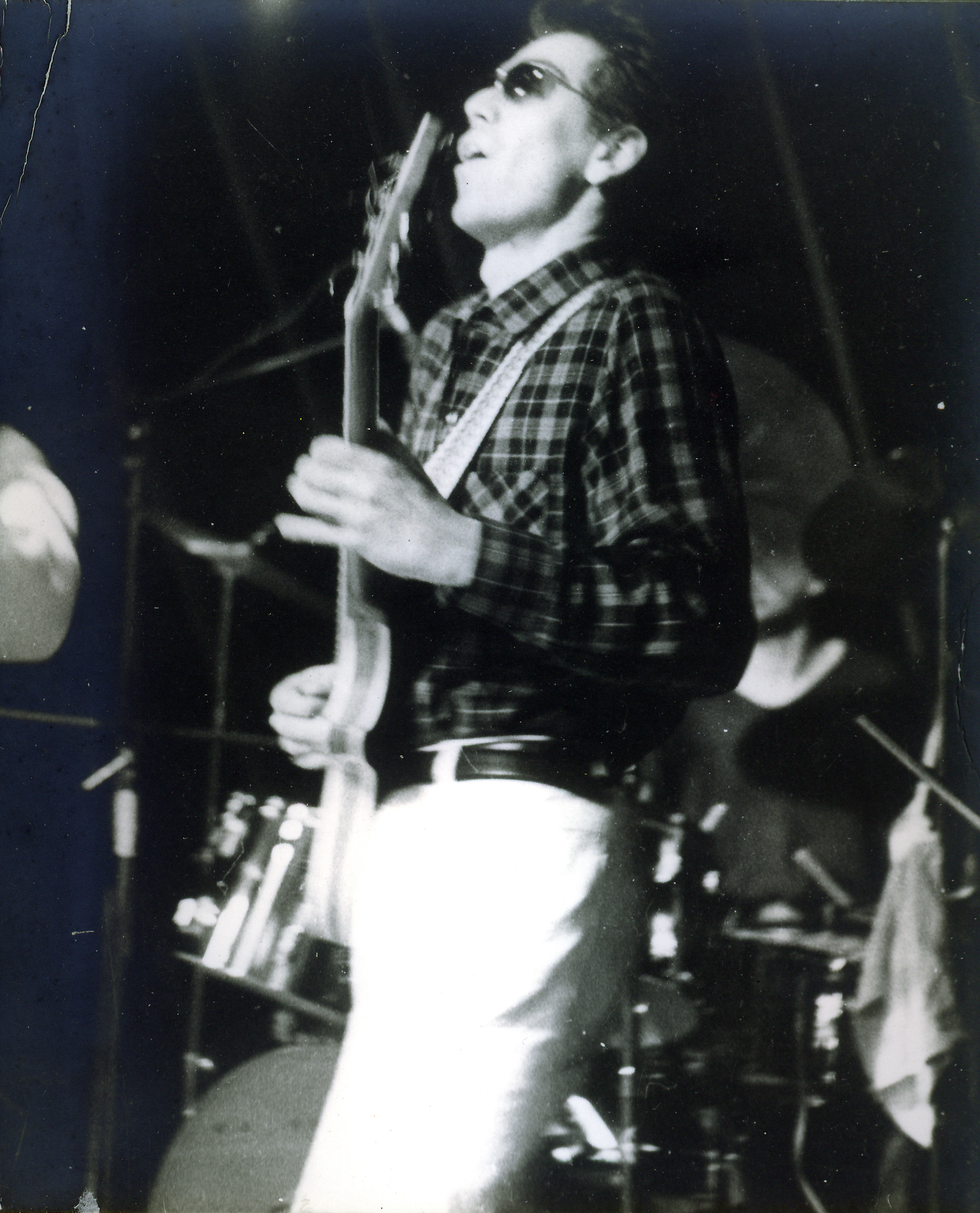 Aleksandar Vasiljevic - Vasa, guitarist in the serbian band "U škripcu"